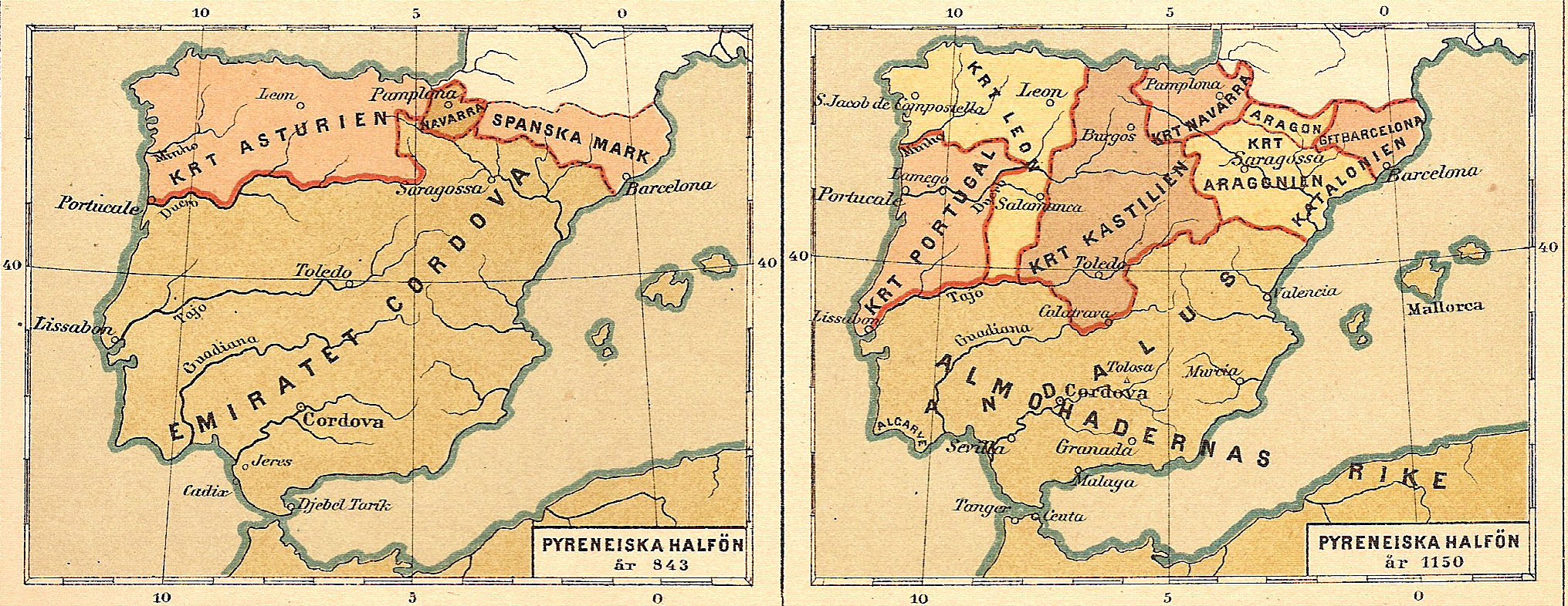 Historic map over the Iberian peninsula 843 ad and 1150 ad.